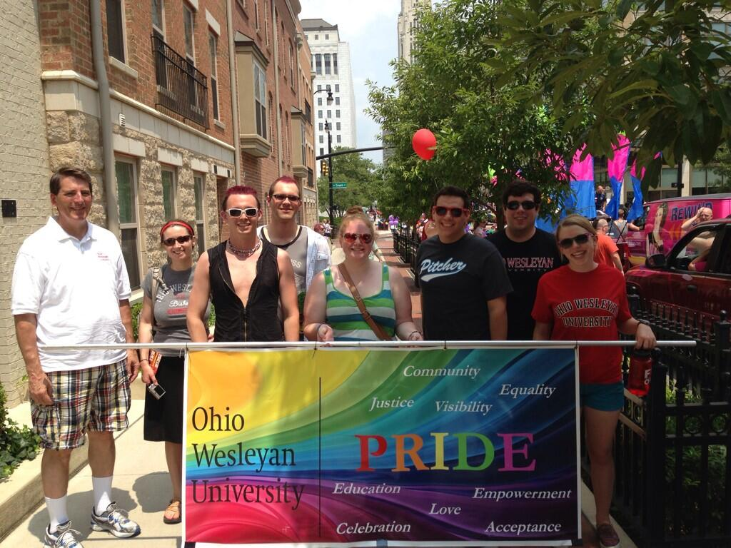 Columbus Pride Festival Ohio Wesleyan University Group June 2013